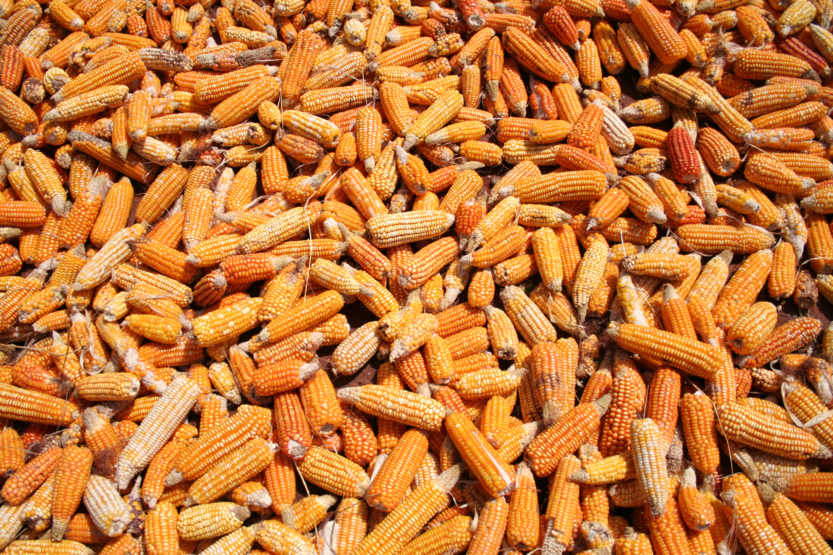 Zea mays, drying in the sun near Cascades de Karfiguela, Burkina Faso